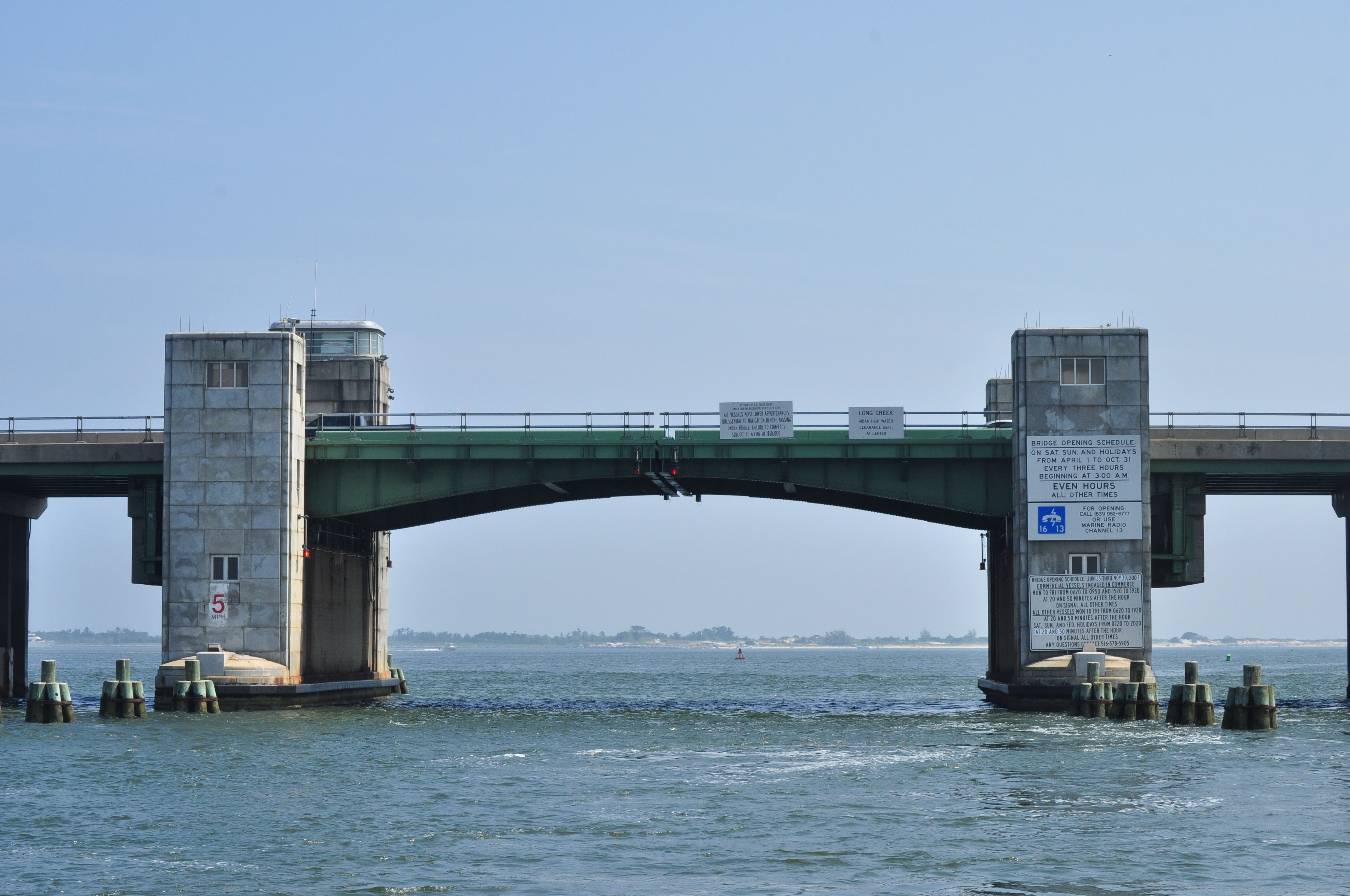 Long Creek Bridge east of Point Lookout, New York, seen from Freeport Water Taxi.